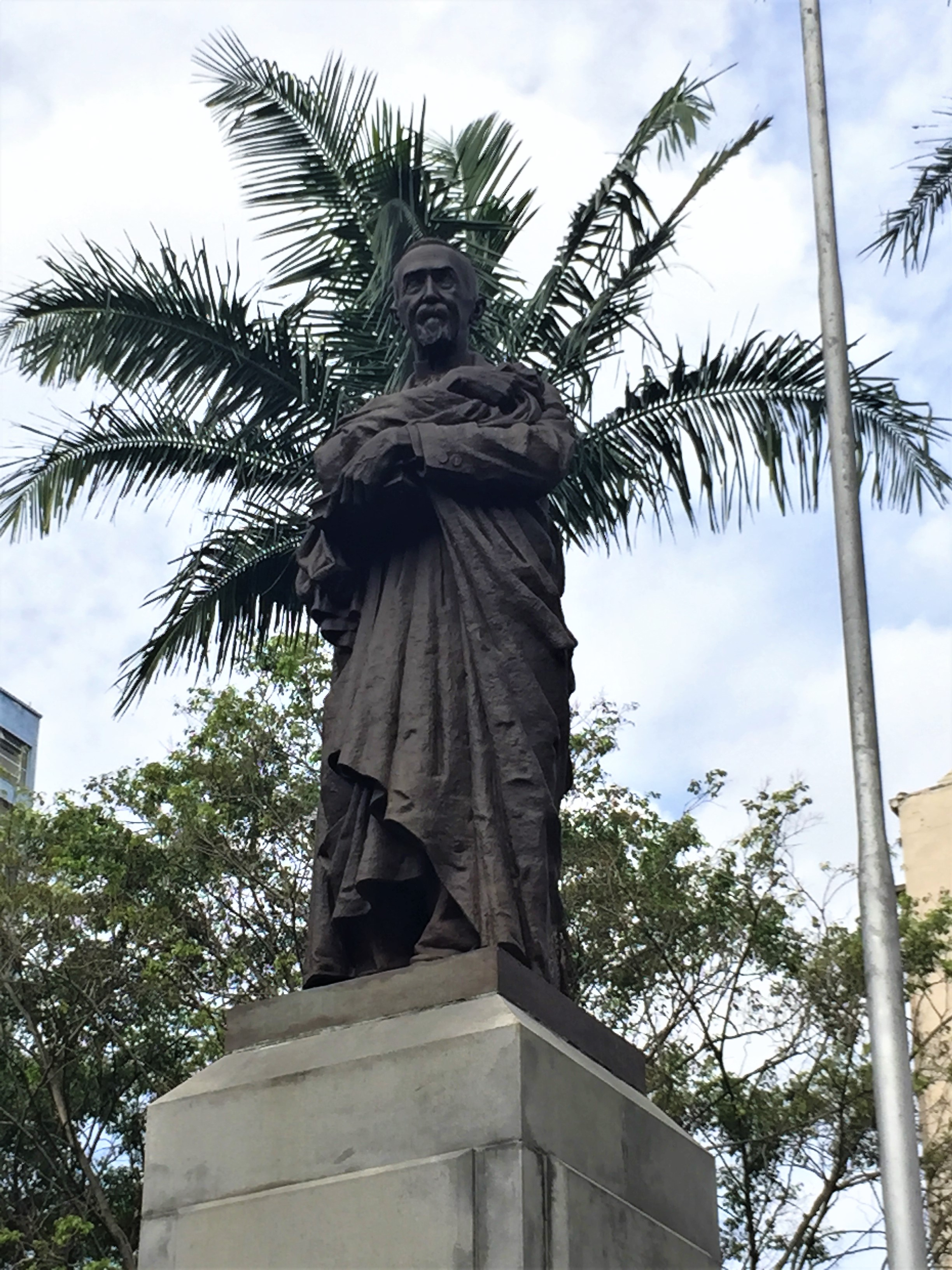 View of the Luiz Pereira Barreto sculpture in the monument to Luiz Pereira Barreto, in São Paulo, Brazil.